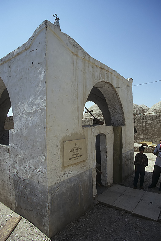 Tomb of the egyptologist Labib Habachi in the Monastery of St. Theodore the Warrier, Malqata, Luxor West Bank, Egypt